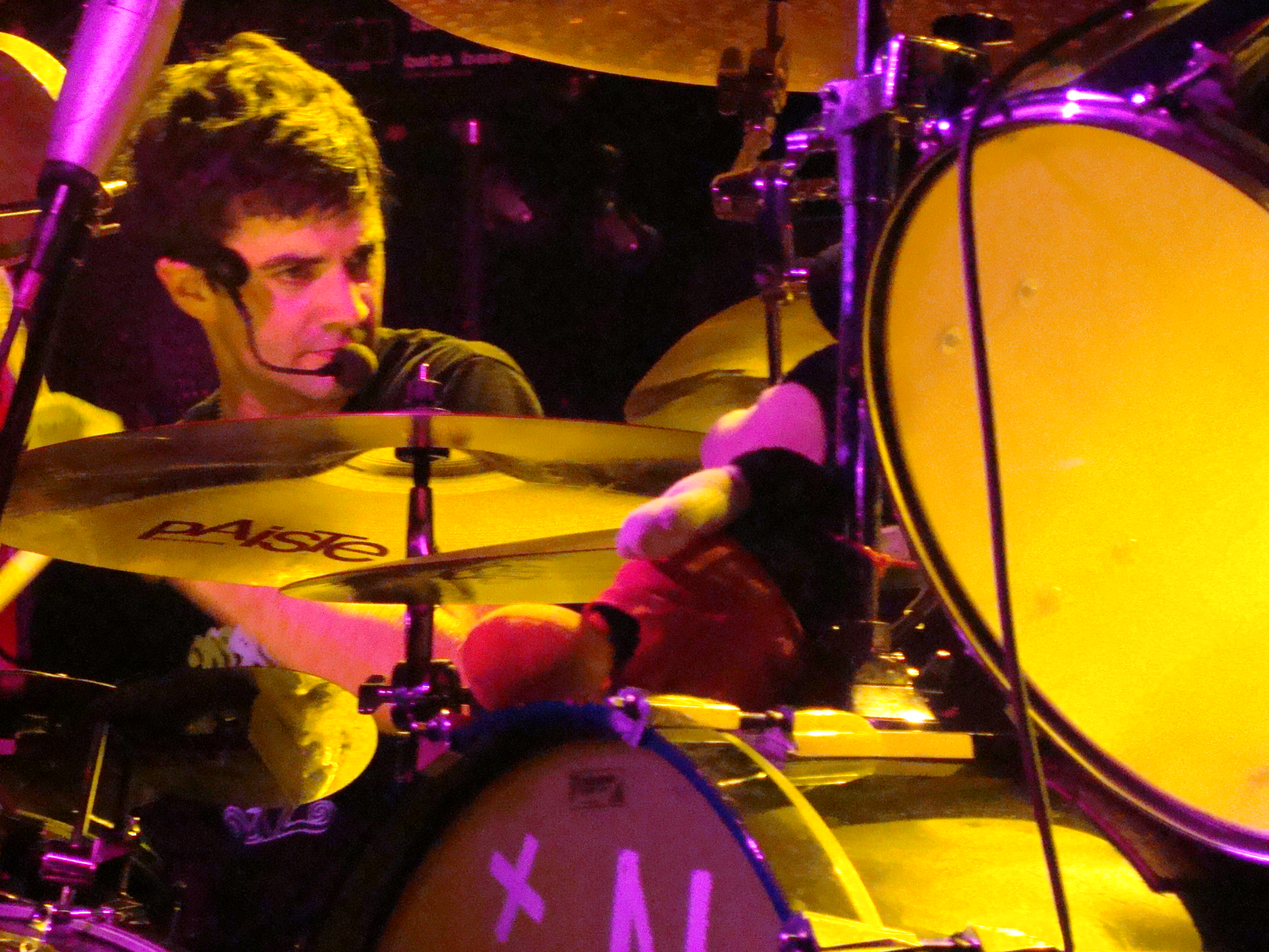 Coady Willis playing with the Melvins.